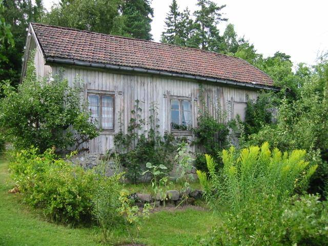 The farmhouse of the tenant farm Eidbråten in Asker in Norway